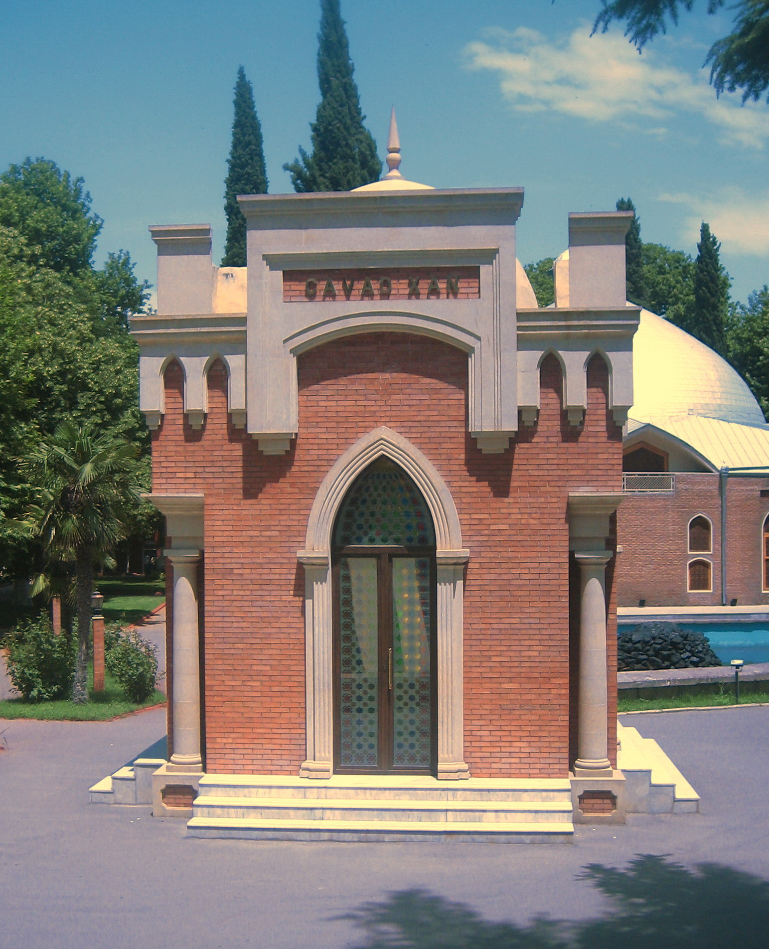 Cavadkhan tomb in Ganja, Azerbaijan